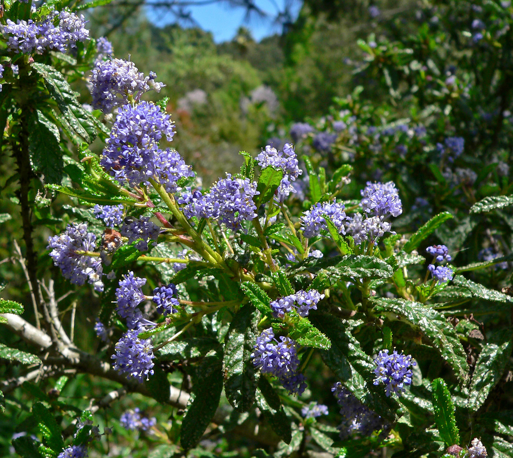 Ceanothus papillosus at the University of California Botanical Garden, Berkeley, California